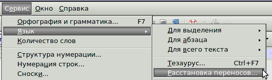 example of calling the menu item "hyphenation"